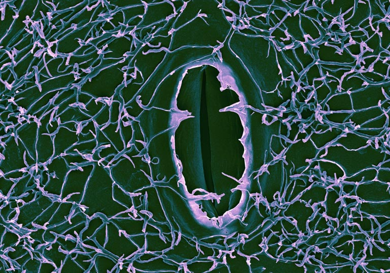 Epicuticular wax crystals surrounding a stomatal aperture on the undersurface of a rose leaf